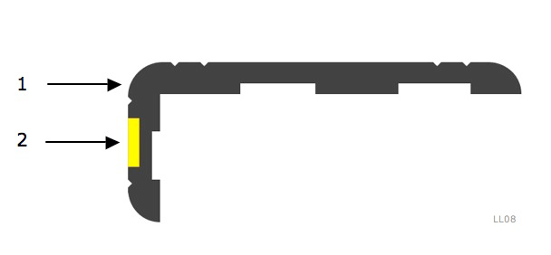 Coextrusion of a stair profile.